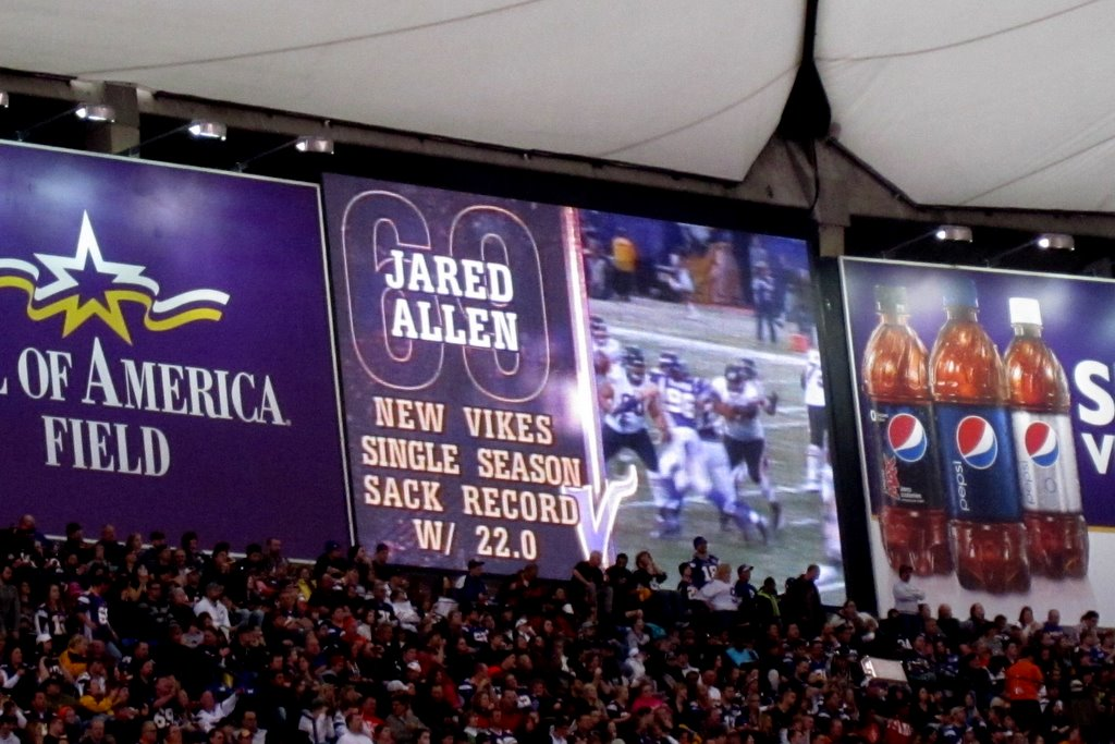 Jared Allen 22 sacks record